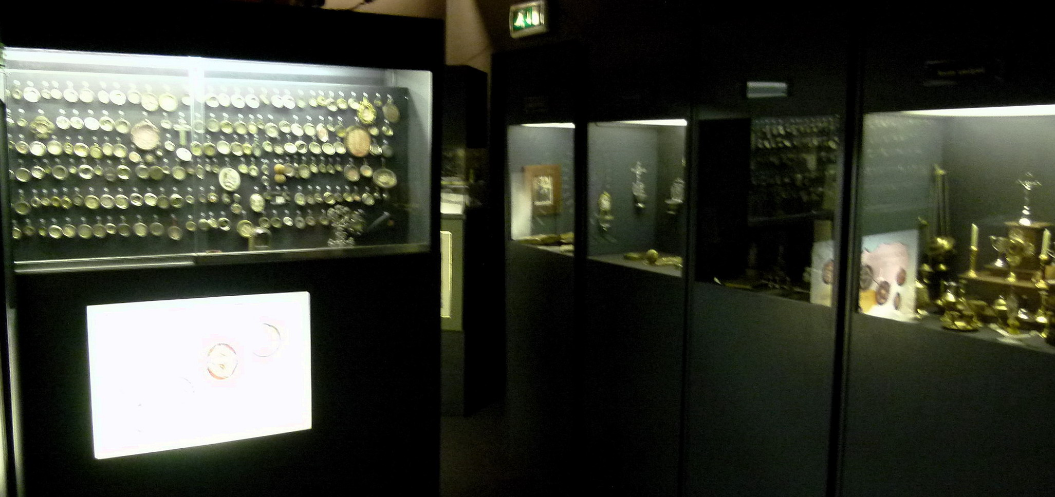 Treasury of the Basilica of Our Lady, Maastricht, the Netherlands. Department of devotional objects ("Santjes & Kantjes"). Left: reliquaries for private use, 17th-20th c.